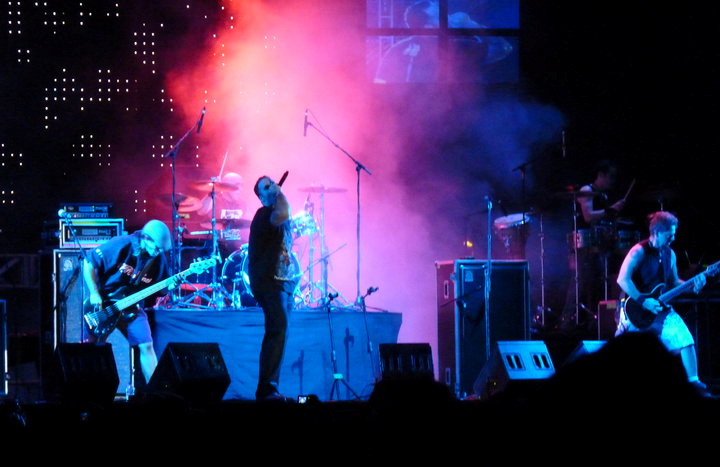 Puya playing at 'Rock Al Parque Festival' in 2010. Bogotá, Colombia